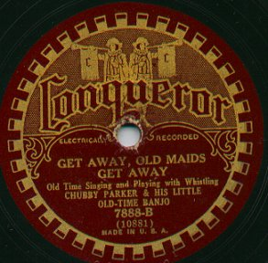 Label of Conqueror Records 78 record.